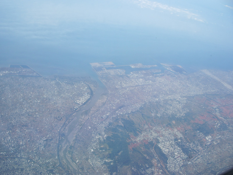 Due to the clouds, I got no farewell view of Hong Kong as I started my flight back to Seoul. But about an hour later, I could get some views of Taiwan. I entered Taiwan around Taichung, and now will head north along the spine of the island, getting some views of the heavily populated northwestern portions. Since losing the Chinese Civil War to the Communists (People's Republic of China) in 1949, the Republic of China has been limited to Taiwan Province and a few islands off the Fujian Province coast. Nevertheless, Taiwan and mainland China have become key strategic and trading partners of each other in recent years; Shanghai has a large Taiwanese population, and Taiwanese airlines operate scheduled direct flights to major mainland cities. I noted this as a nice contrast to the again-increasing tensions of the two Koreas, as I head toward Seoul on a South Korean aircraft. HL7417, Boeing 747-400M